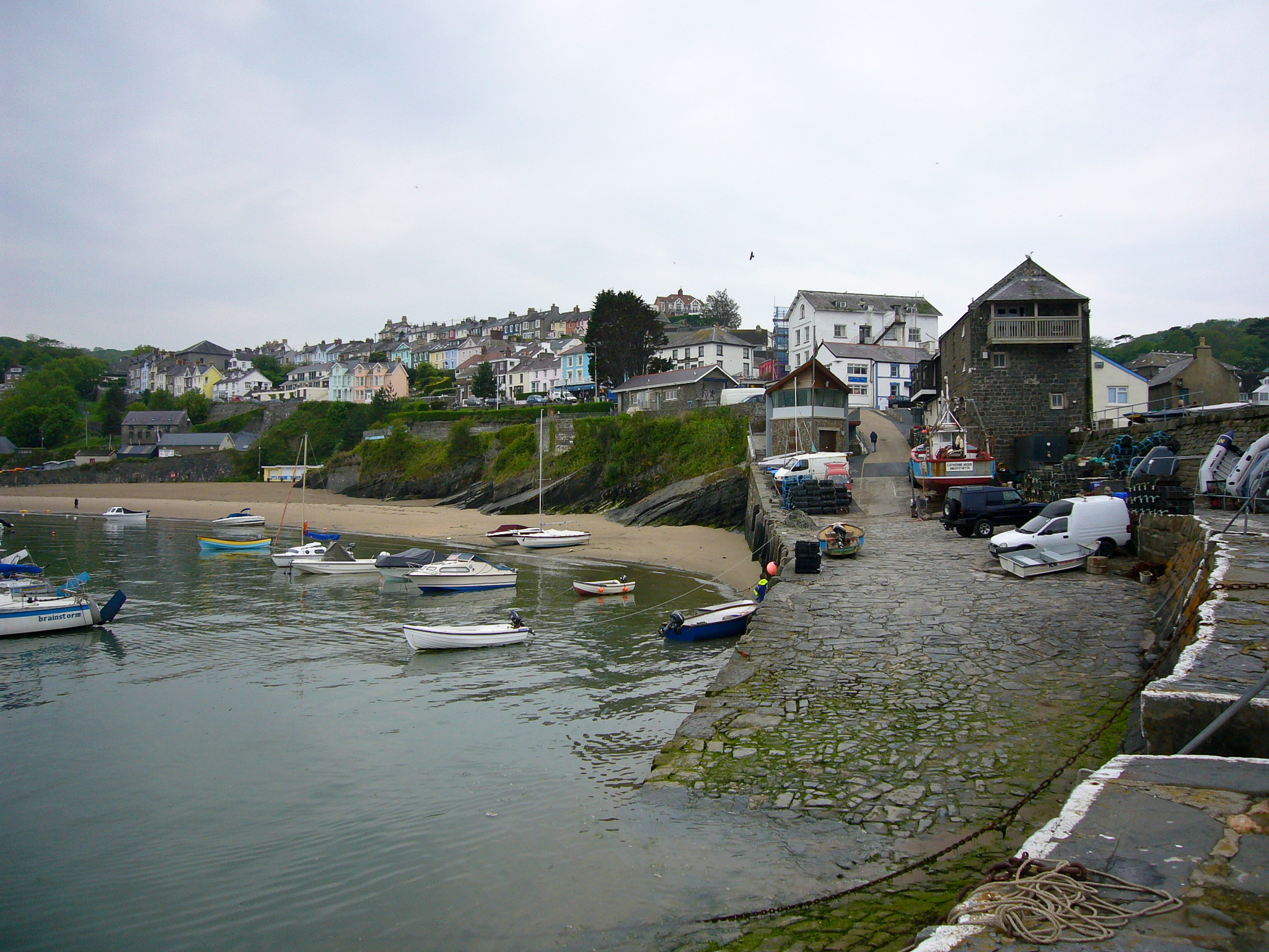 A view of the town New Quay from the harbour on Cardigan Bay, Ceredigion, Wales.